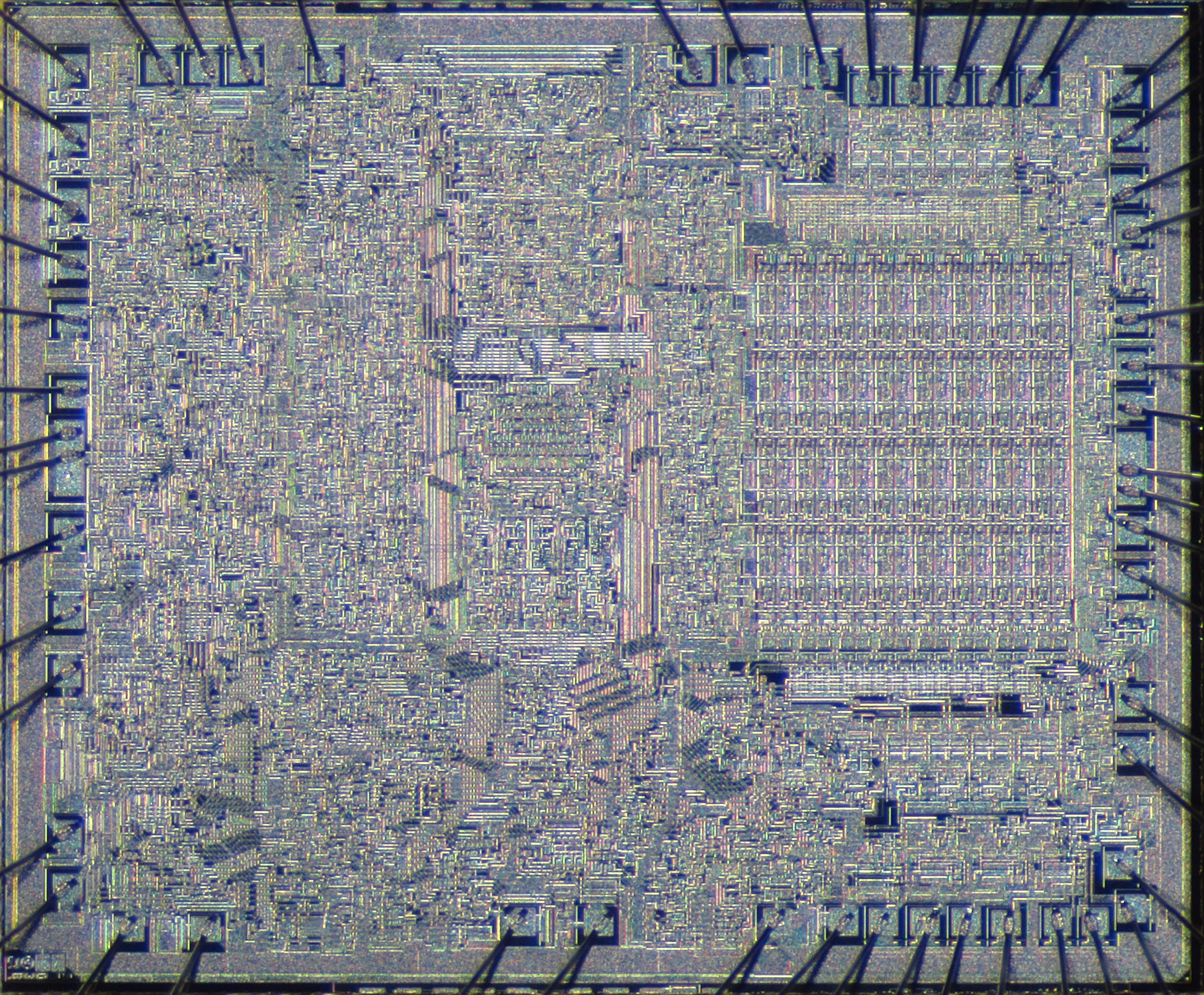 Die shot of AMD Am2903 4-bit expandable microprocessor slice (AM2903DC).